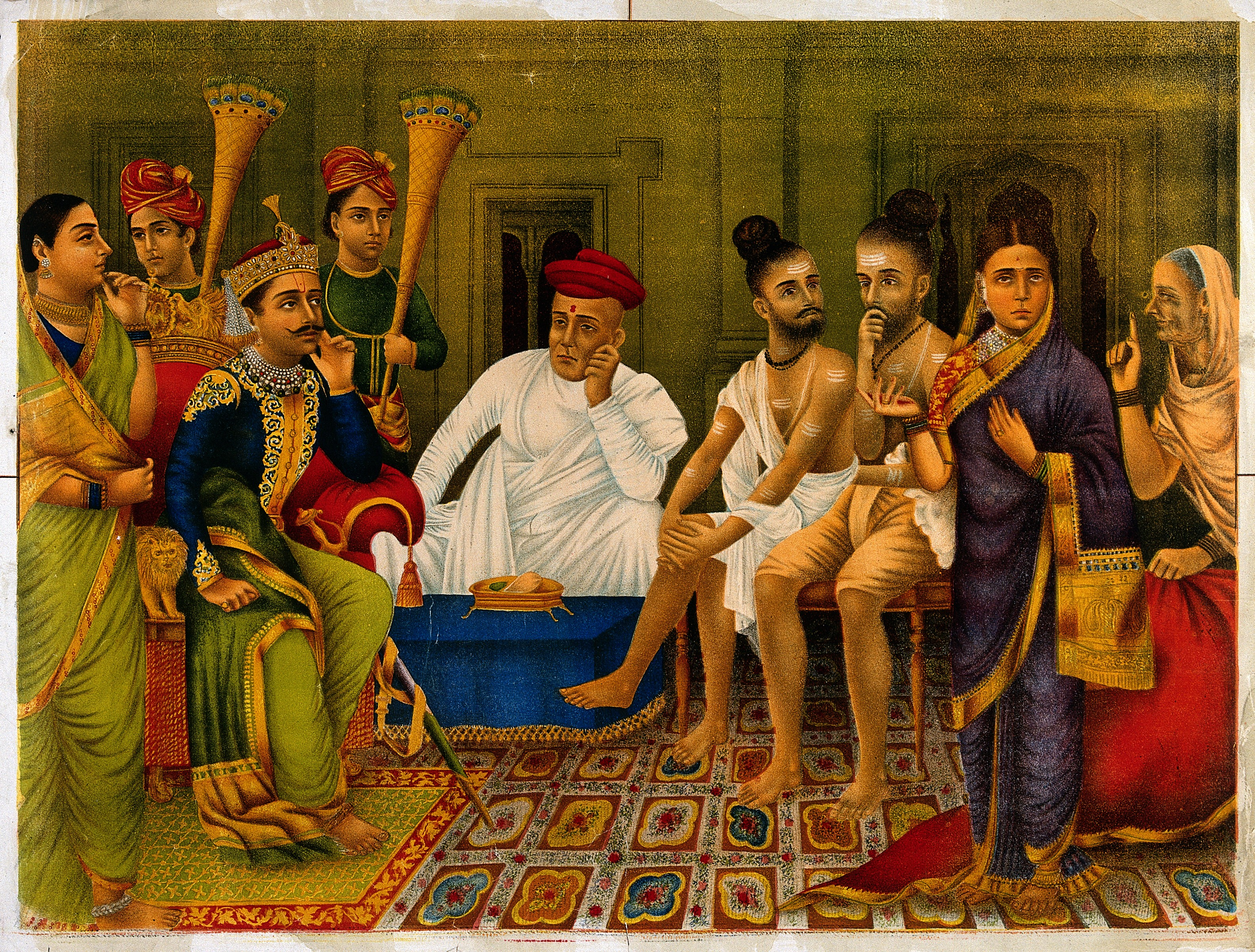 Representation of Dasaratha being asked in court to banish Rama by Kaikeyi and her humpbacked female slave Manthara. Chromolithograph. Iconographic Collections